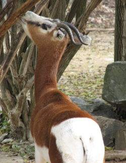 Mhorr Gazelle Taken at Louisville Zoo, November 5th 2006